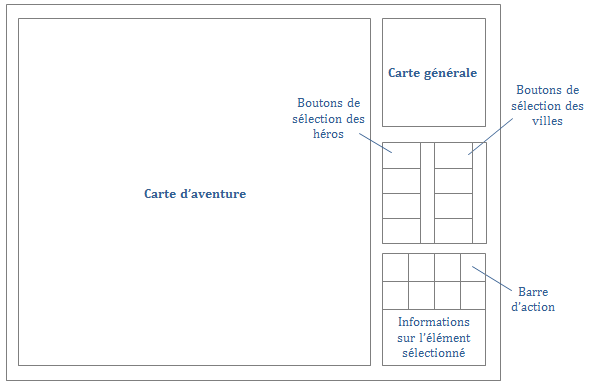 Diagram showing the functionalities of the interface of the adventure map in the video game Heroes of Might and Magic II (1996).